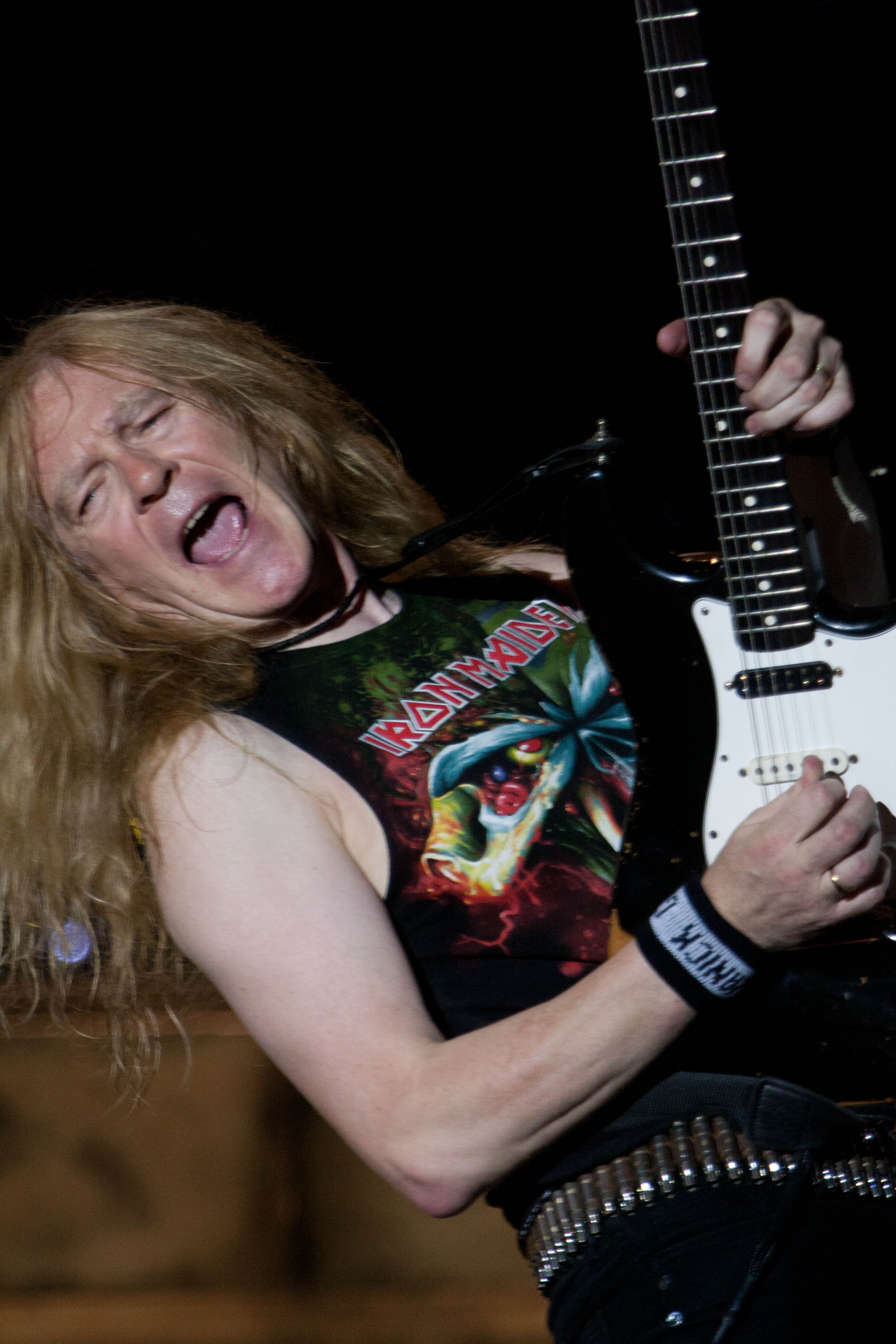 Janick Gers, guitarrist of Iron Maiden.